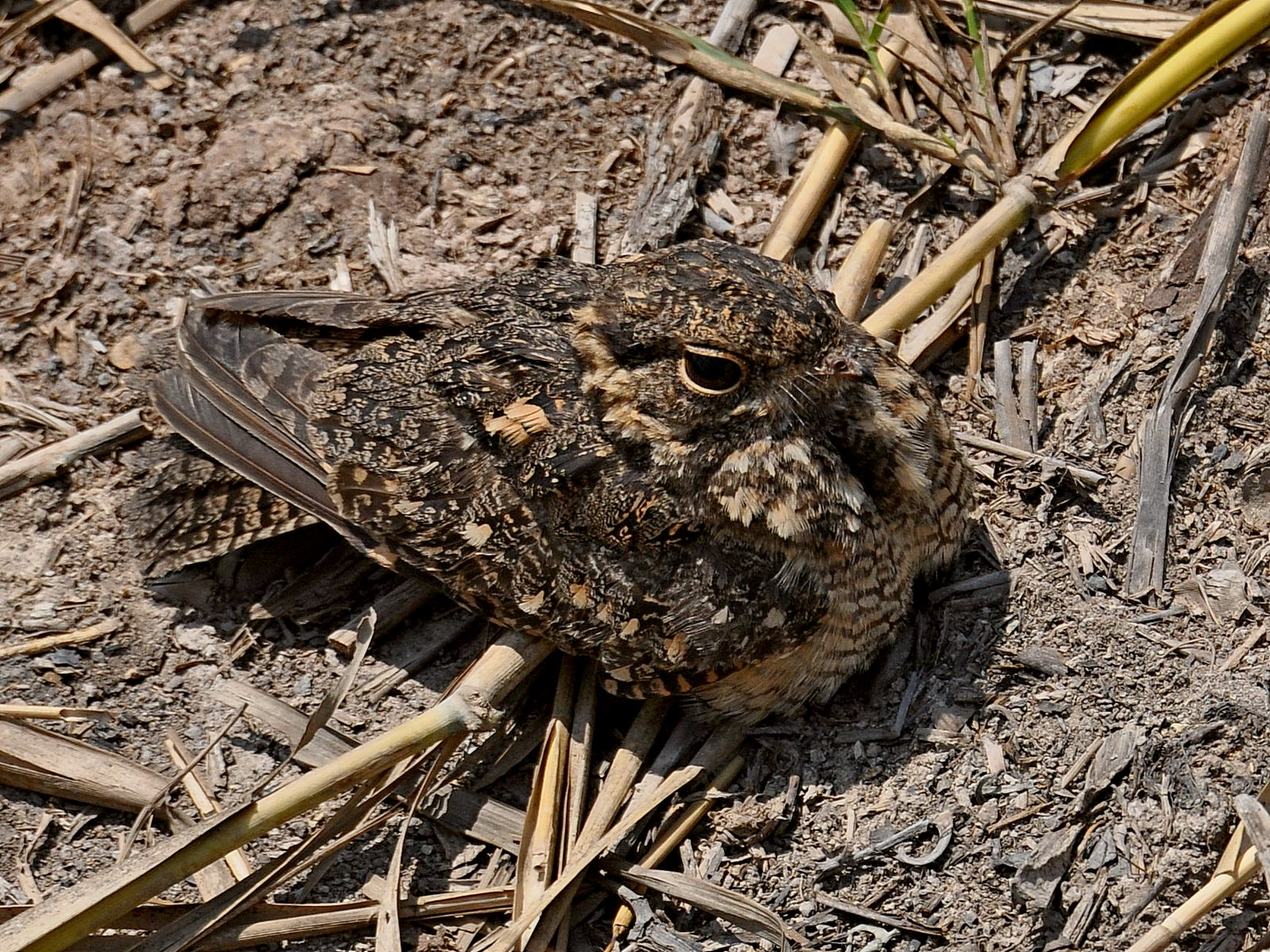 Savannah Nightjar (Caprimulgus affinis) female, close up. From South Sumatra, Indonesia